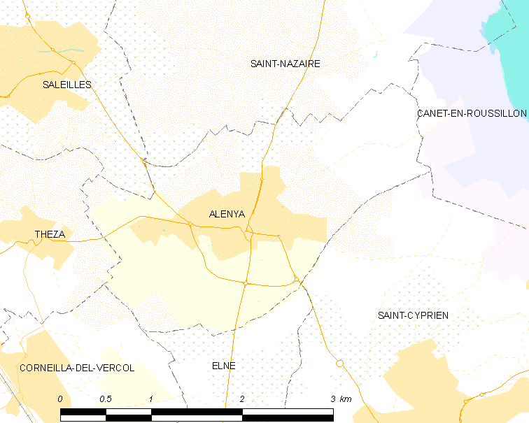 Map of French municipality